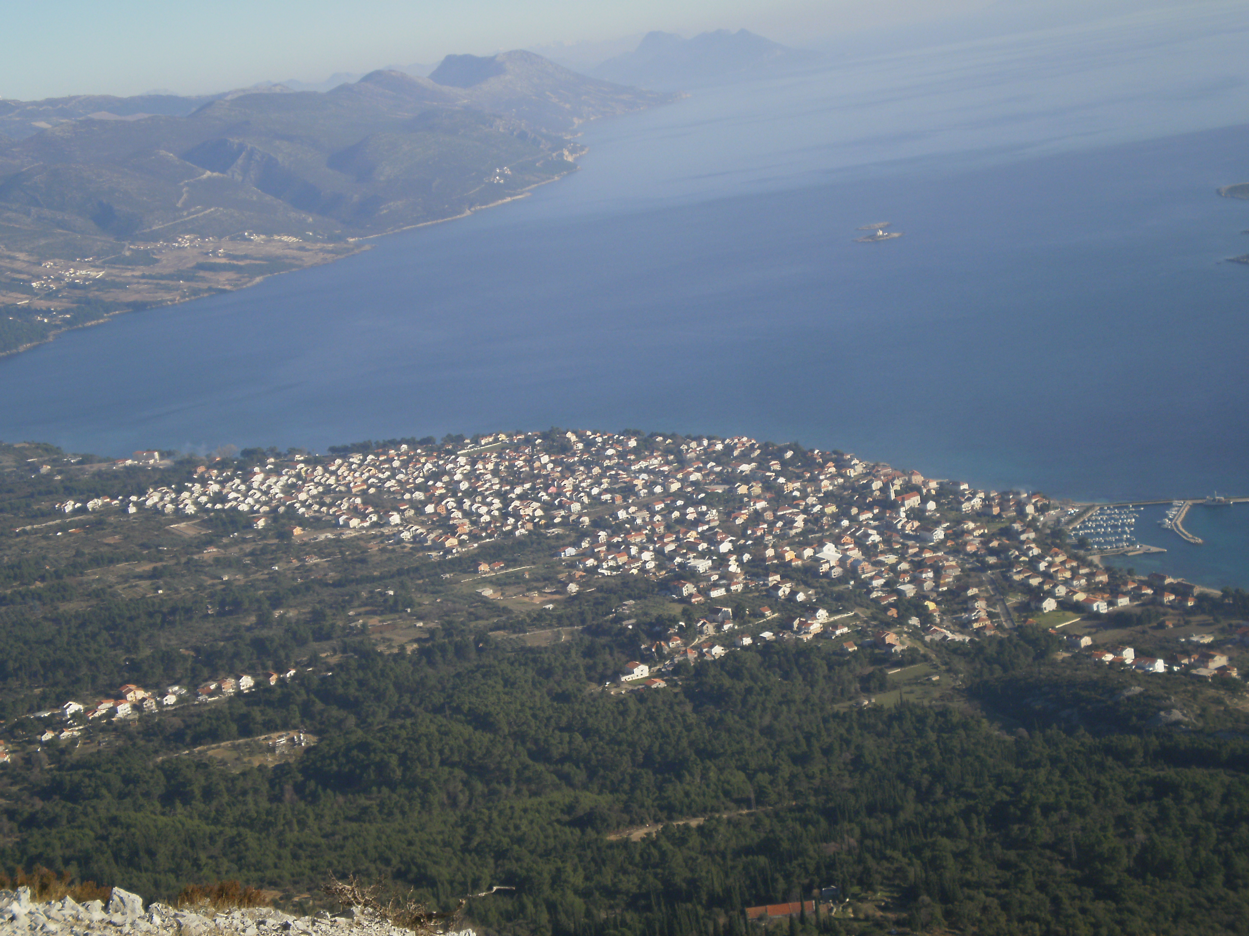 Panorama photo of Orebić OLYMPUS DIGITAL CAMERA